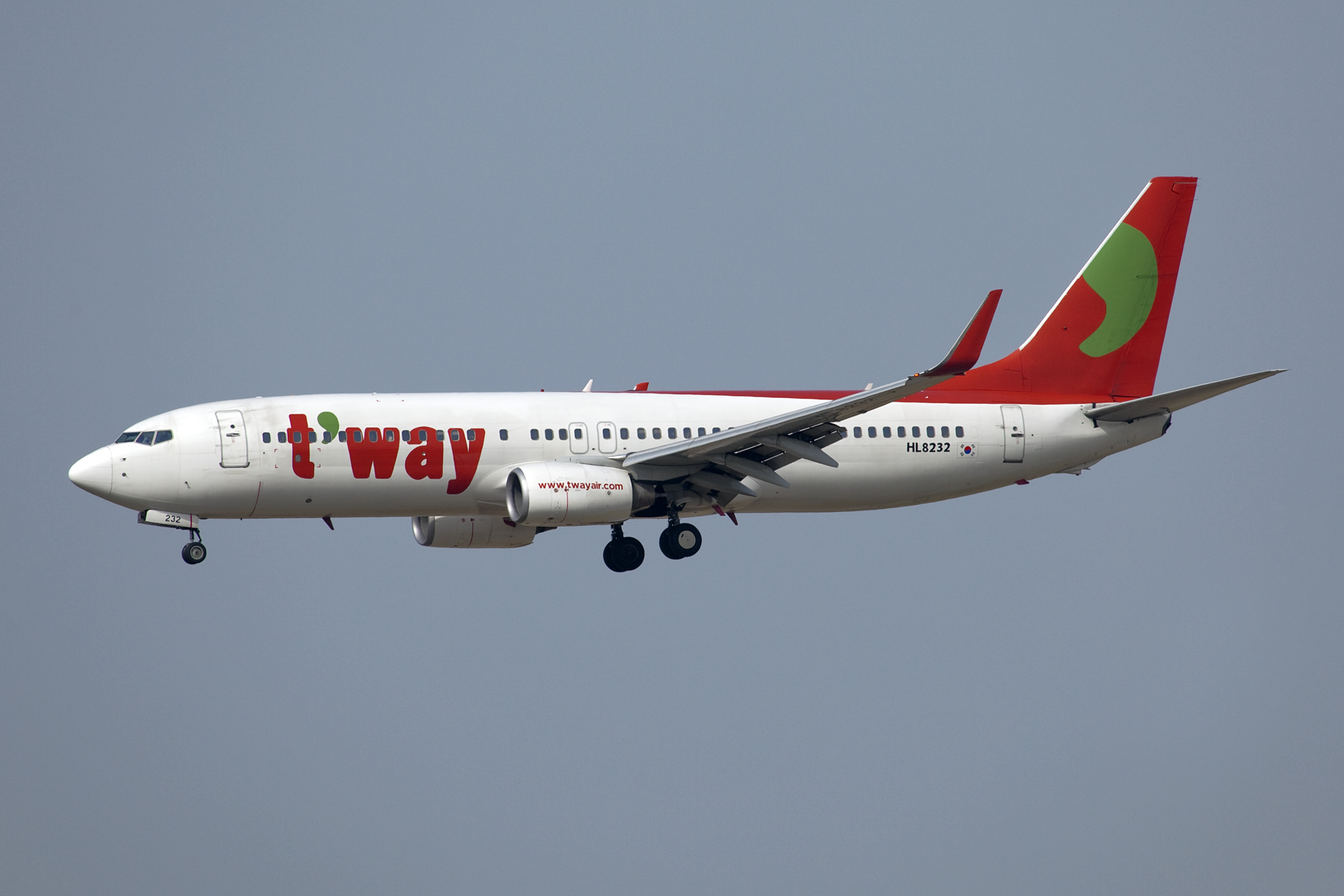 Seoul-Incheon